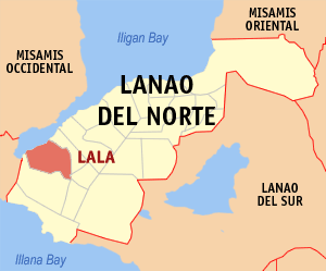 Map of the Lanao del Norte showing the location of Lala